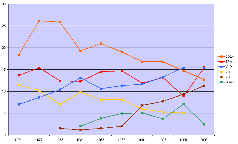 Current Flemish parties and their results for the Belgian Senate since 1971, expressed in percentages